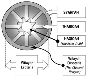 The center of Haqiqa region, which is 'unseen', is the Marifa station. The labels are in Indonesian.